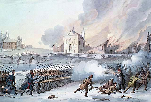 Picture from Wiki EN portal. Original license shown below: Back View of the Church of St. Eustache and Dispersion of the Insurgents by Charles Beauclerk (1813 - 1861).